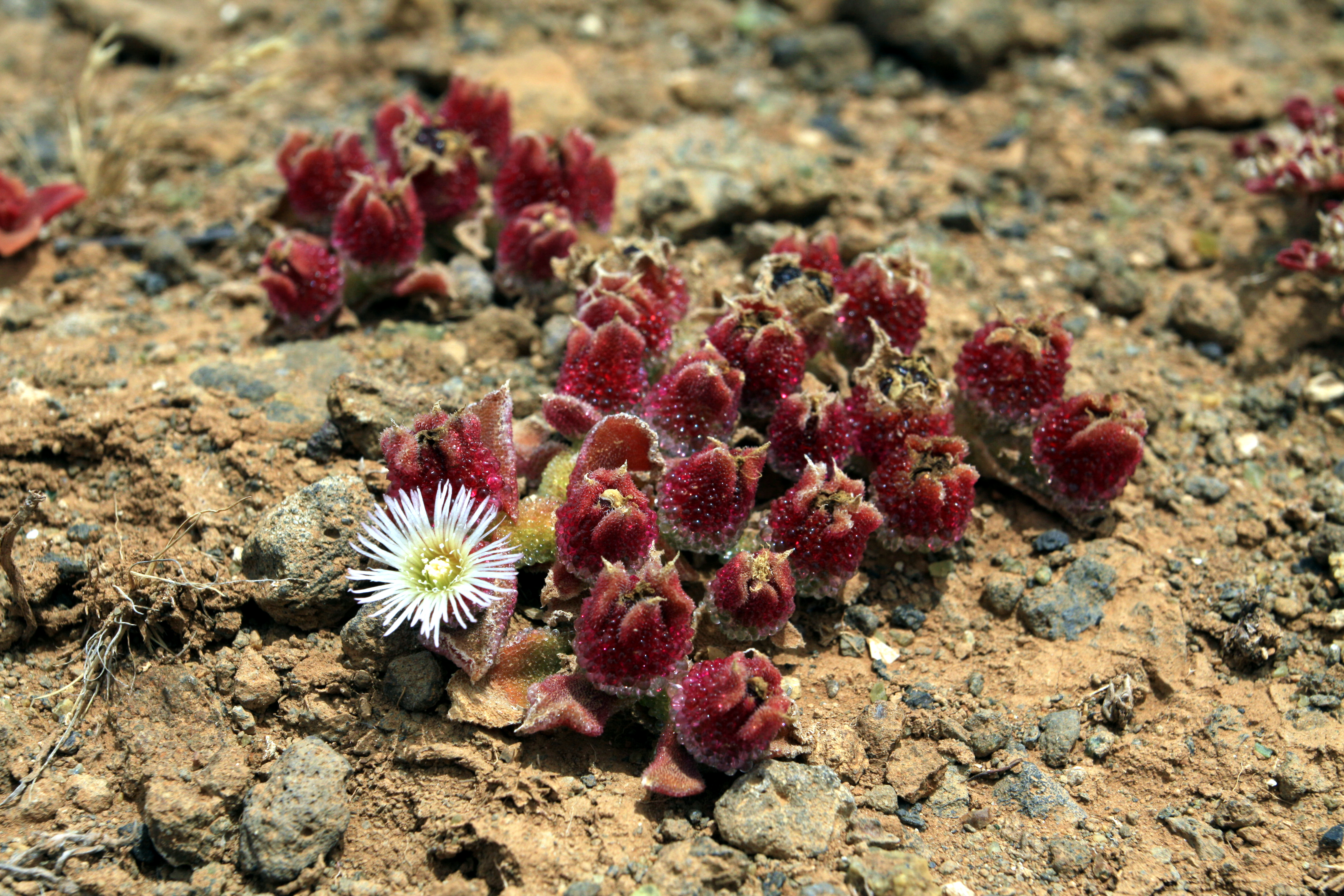 Mesembryanthemum crystallinum on Lanzarote, The Canary Islands, Spain - OpenStreetMap(Info)